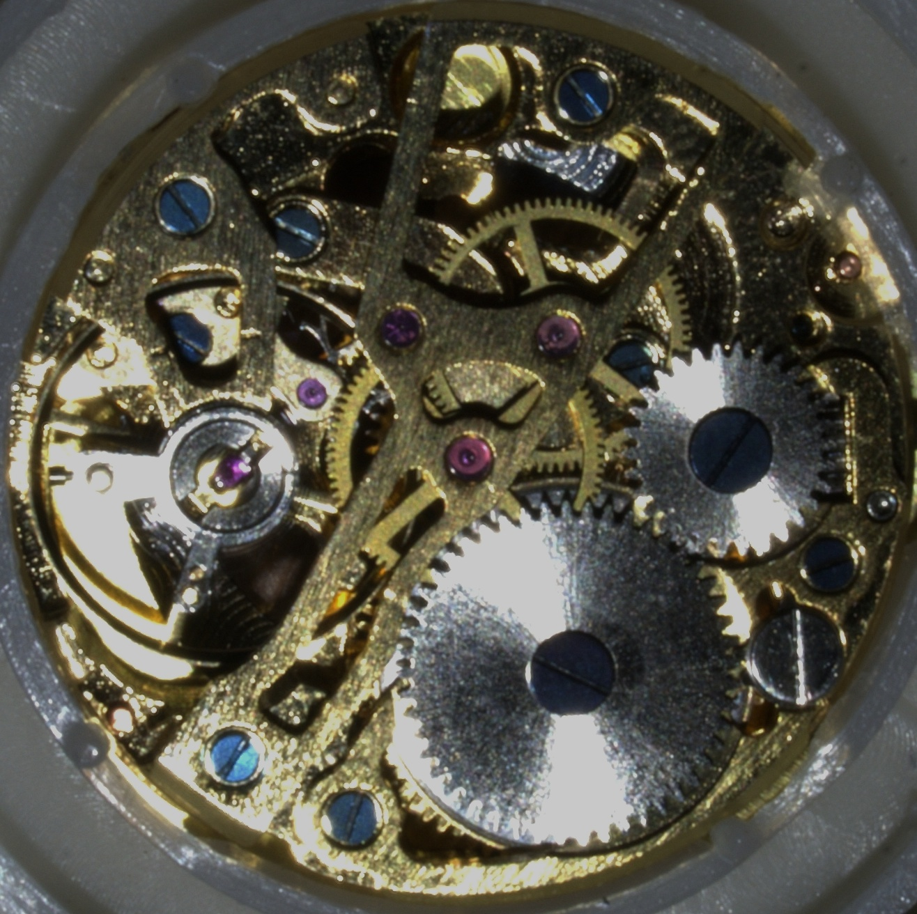 Photograph of the Chinese 'Unified Movement' calibre found in many inexpensive mechanical watches.